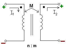 A picture of the usual depiction of mutual inductance. The two vertical lines between the inductors indicate a solid core that the wires of the inductor are wrapped around. "m" shows the ratio between the number of windings of the left inductor to windings of the right inductor. This picture also shows the :en:dot convention|dot convention .